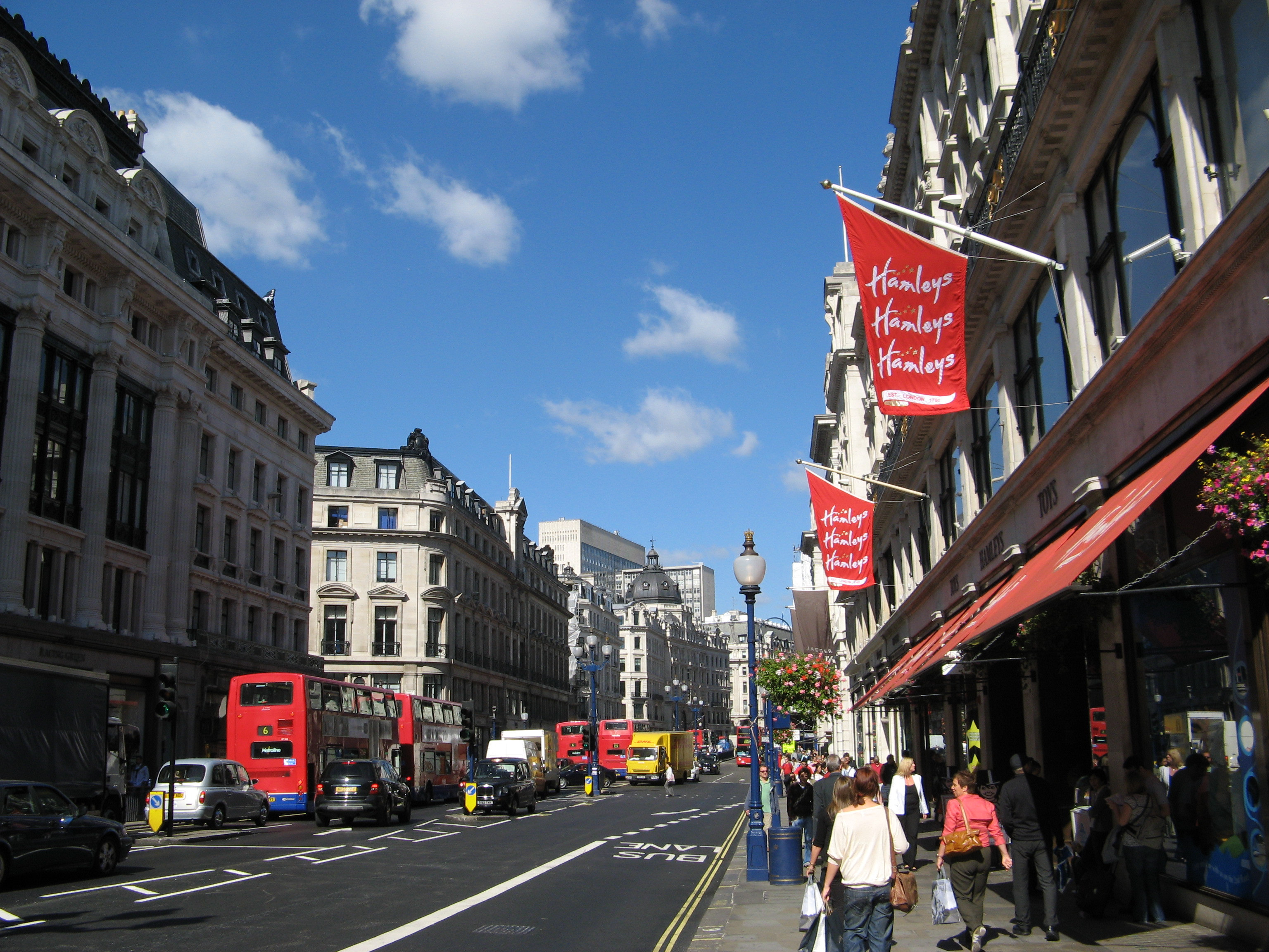 Hamleys, on Regent Street, London, UK.